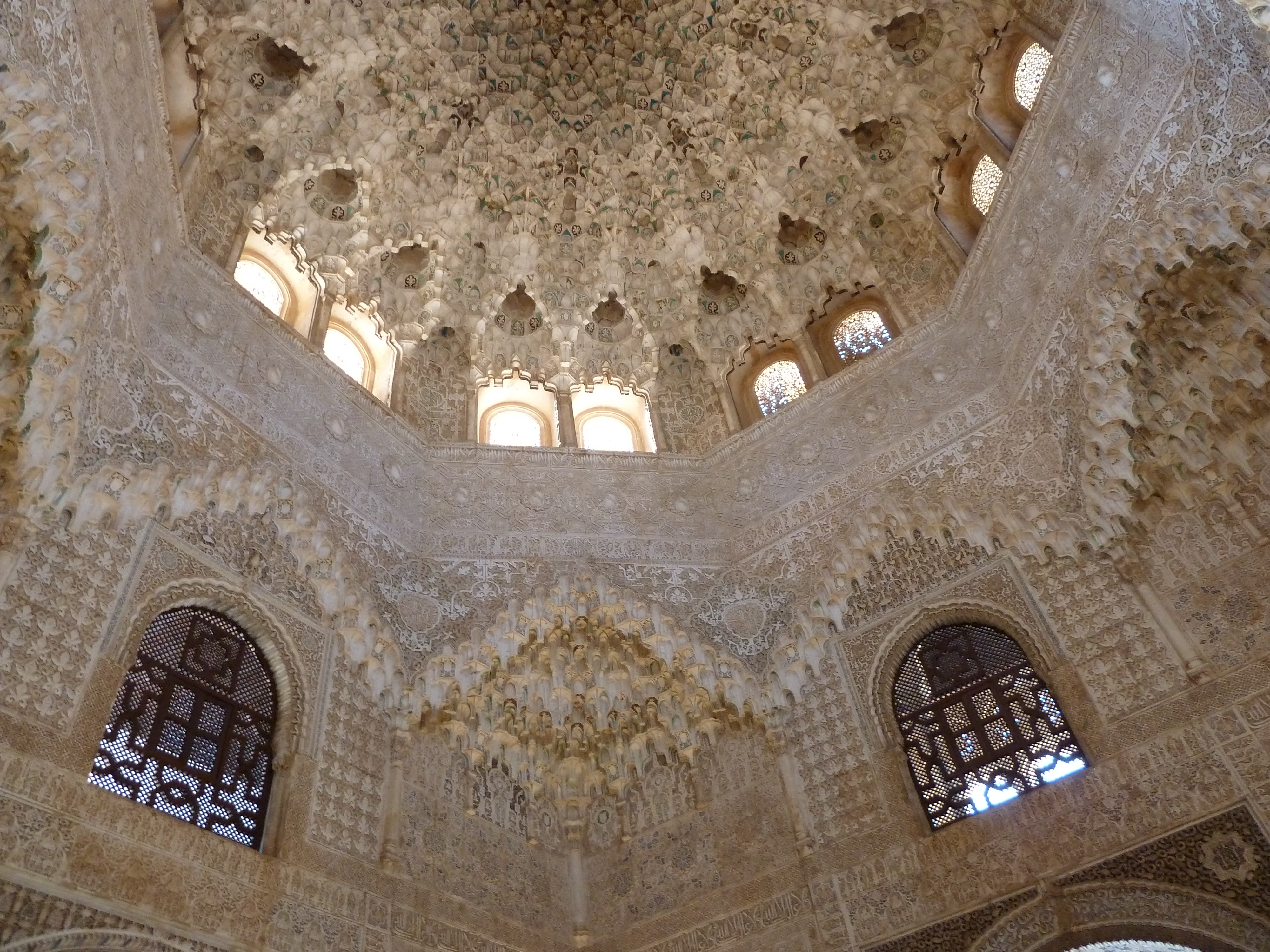 Ceiling in the Alhambra in Granada, Spain